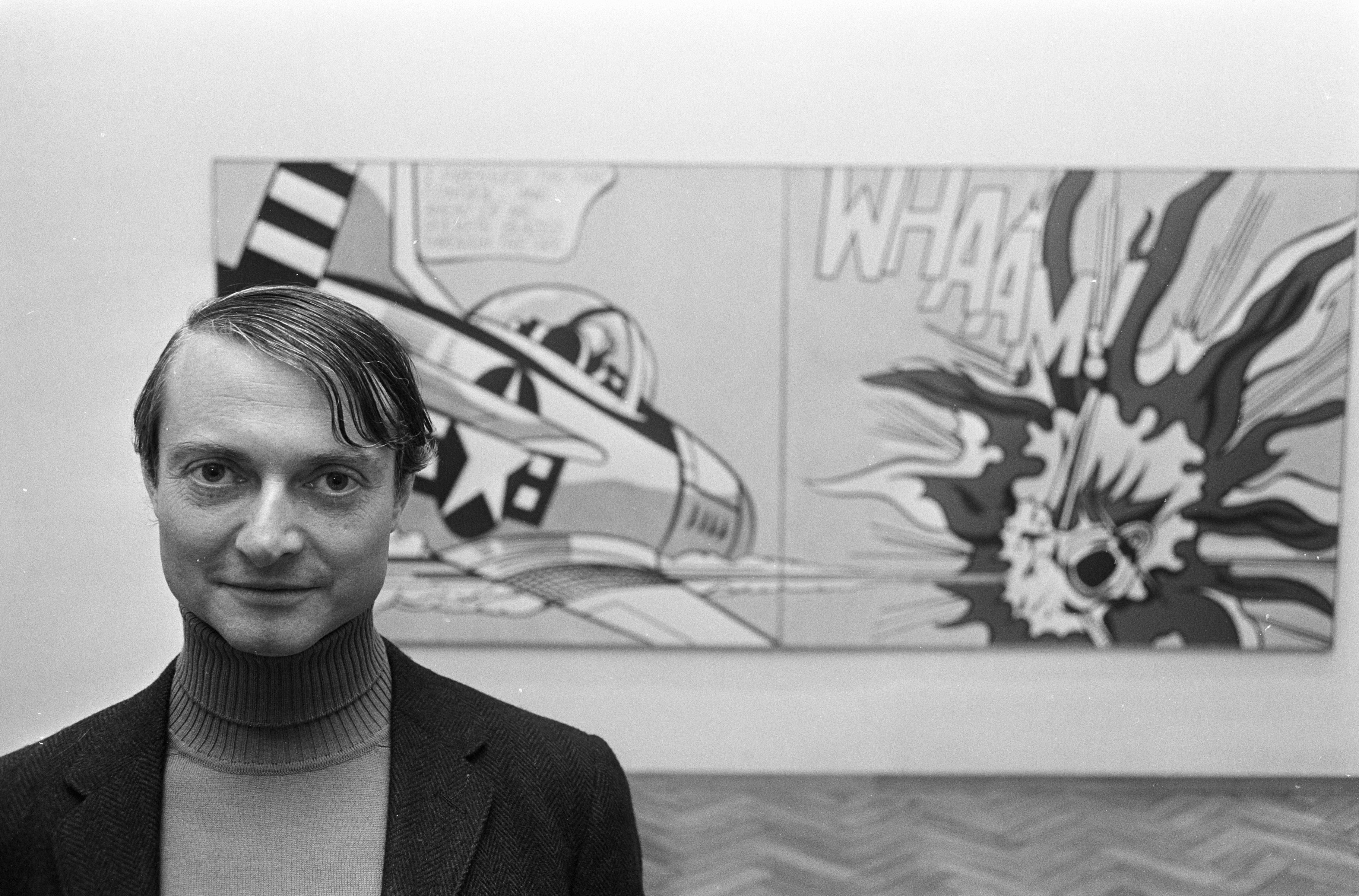 Roy Lichtenstein in front of one of his paintings at an exhibition in Stedelijk Museum.